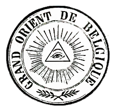 Seal of the Grand Orient of Belgium, the belgian masonic obedience founded in 1833.